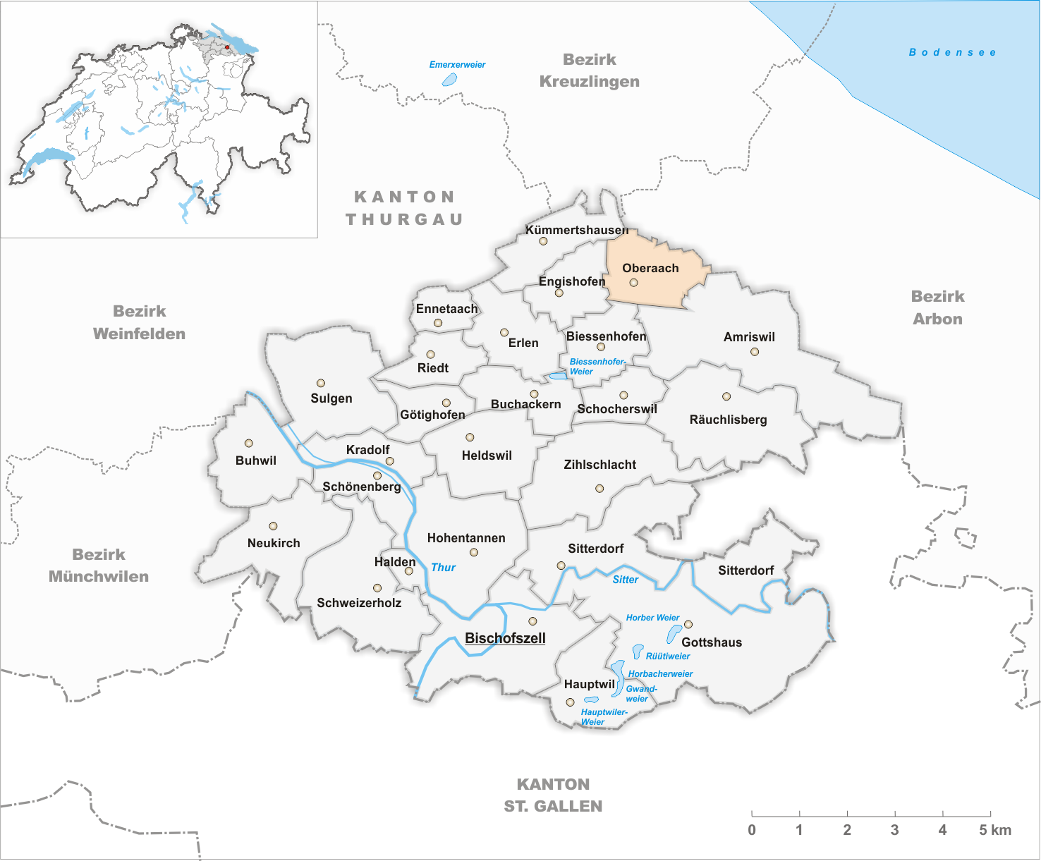 Municipality Oberaach